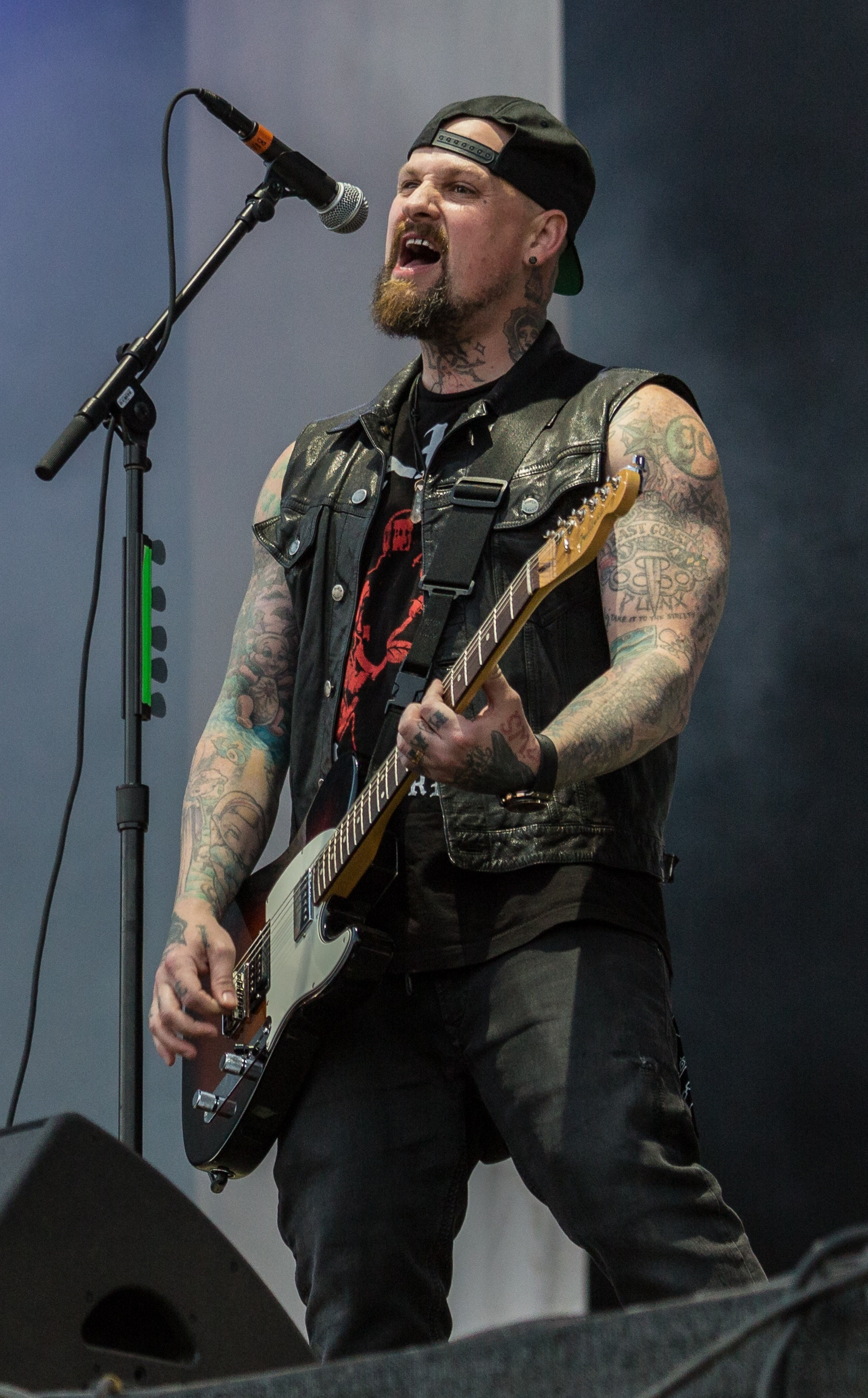 A cropped version of wikiuser Alfred Nitsch's picture of Good Charlotte at Nova Rock 2017, only featuring Benji Madden.